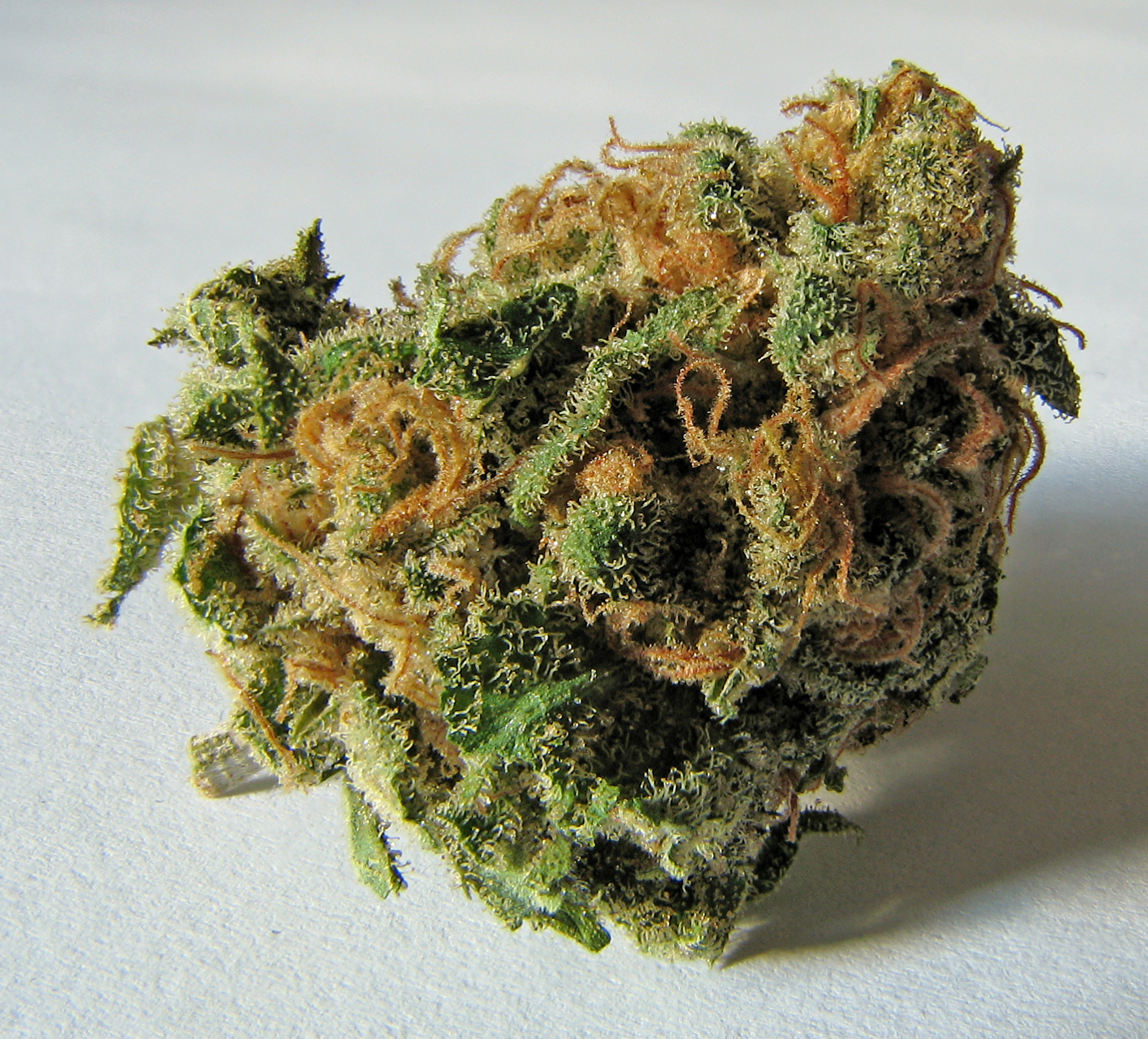 A close-up image of a dried, potent, Cannabis bud. Type Mountain Jam.This image was made by taking several images at different focal ranges and then combining the results to increase the depth of field. See Focus stacking for more information.